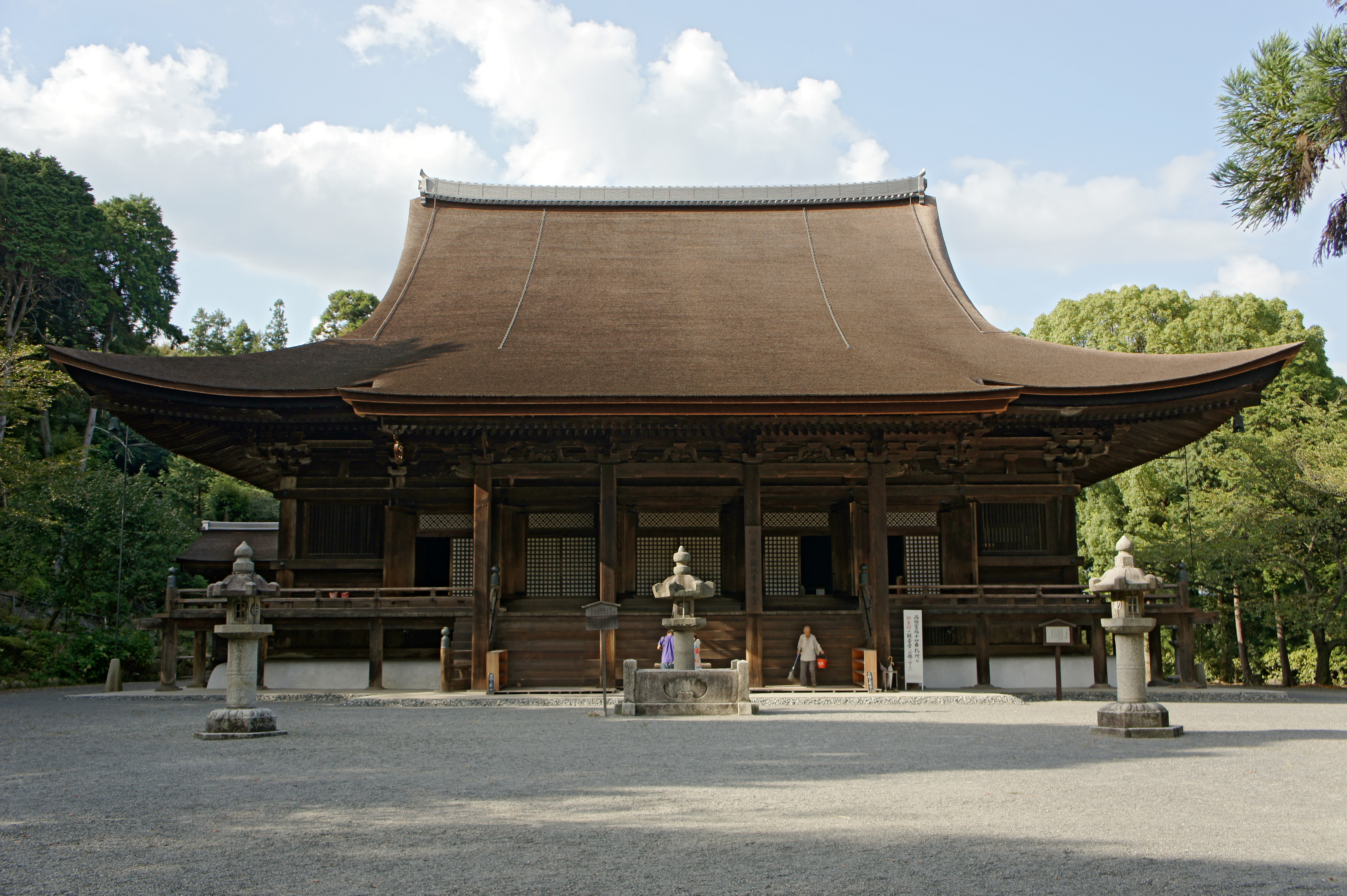 Mii-dera (Onjoji) Golden Hall is a Japan's National Treasure, in Otsu, Shiga prefecture, Japan. It was built in 1599.